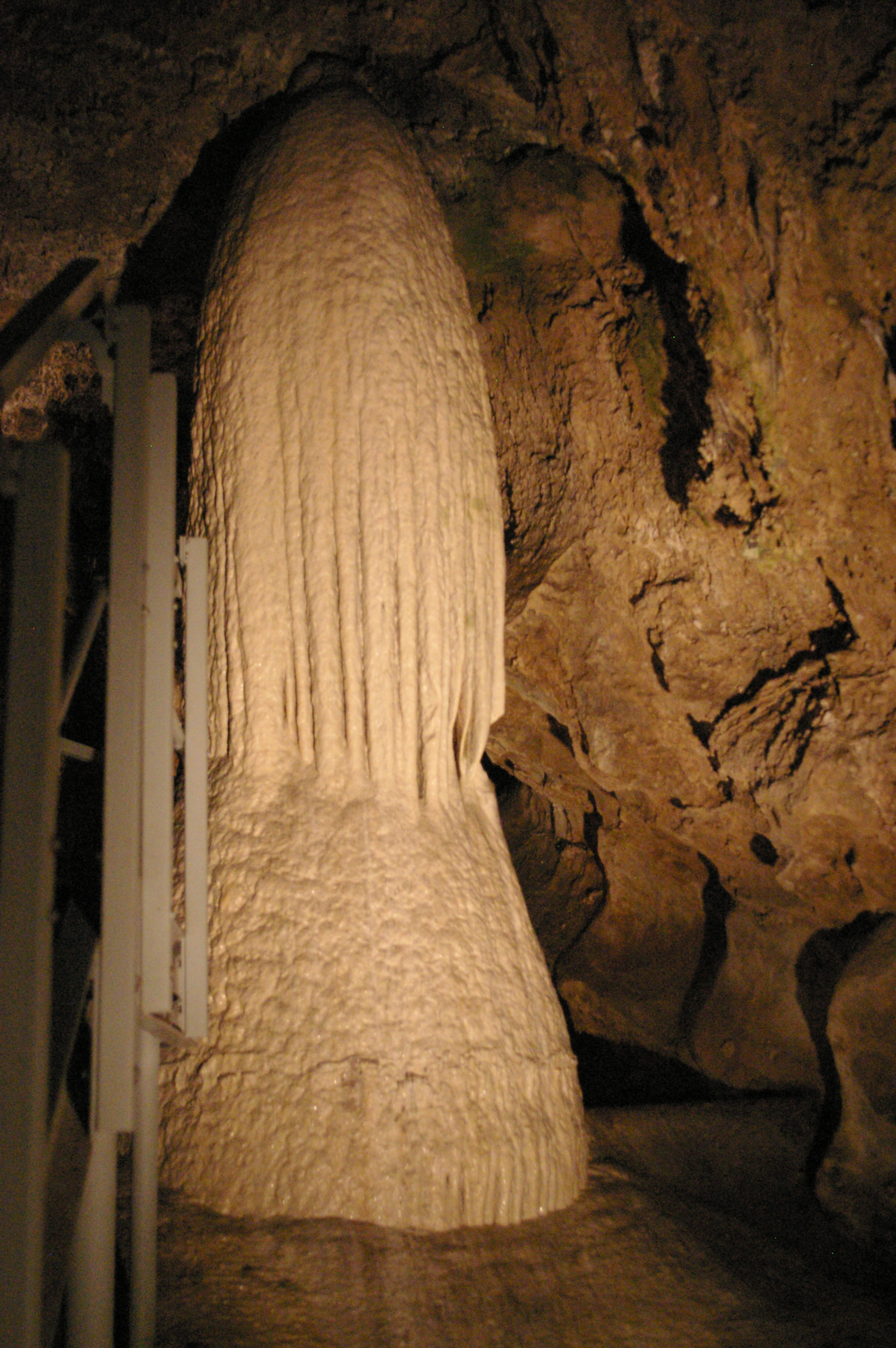 A fifteen-foot (five-meter) tall column in Gardner Cave, Crawford State Park. It is the largest known cave column in Washington State.